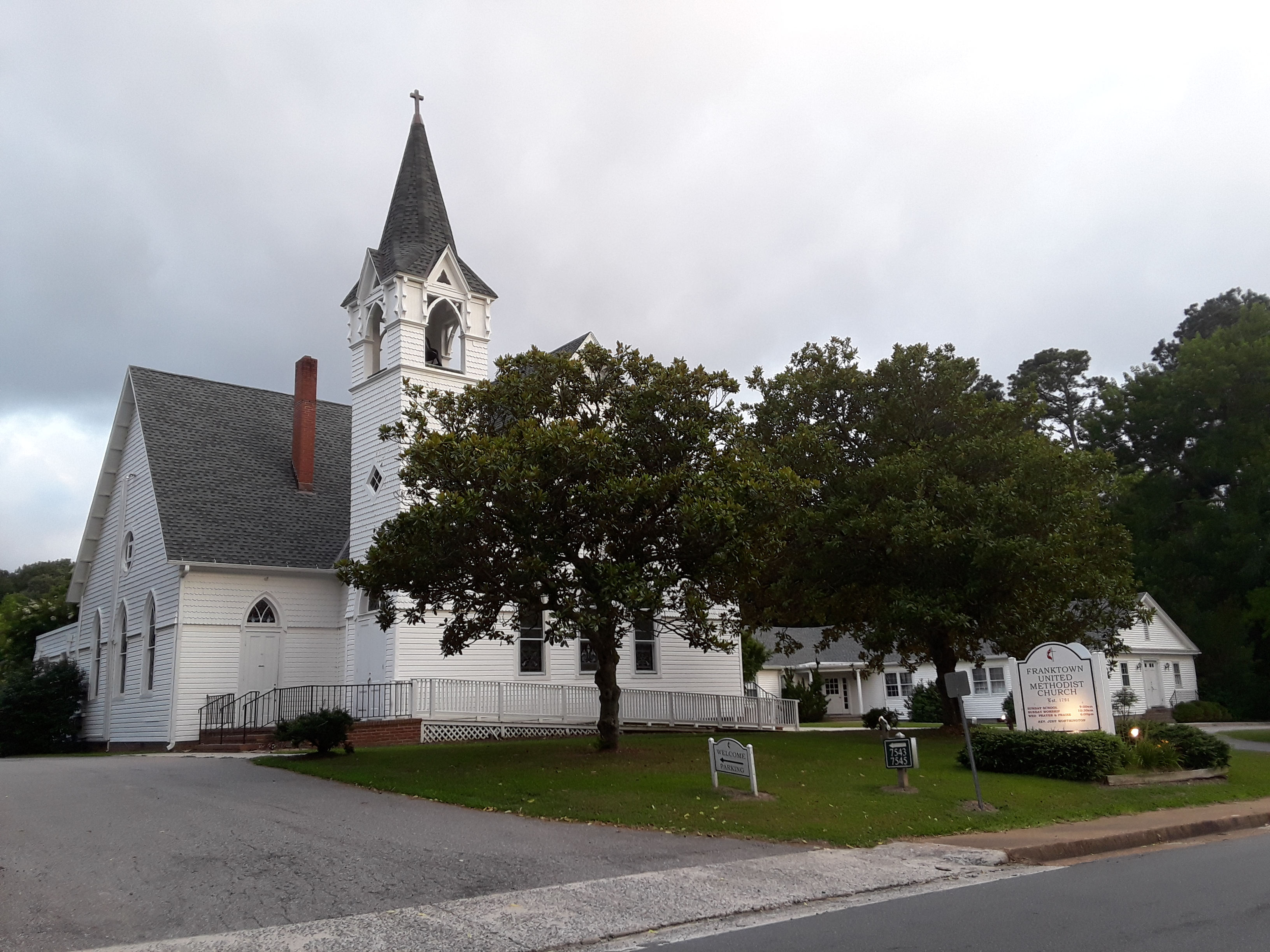 Taken on a visit to the Eastern Shore of Virginia, July 2018